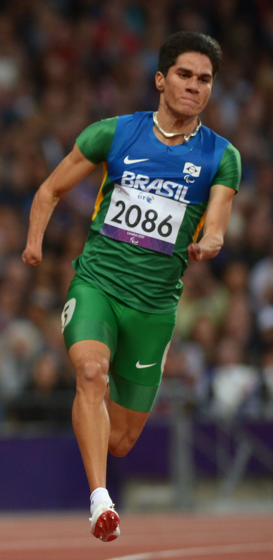 Paralympic sprinter Yohansson Nascimento in the finals of the T46 200m race at the 2012 Summer Paralympics in London.